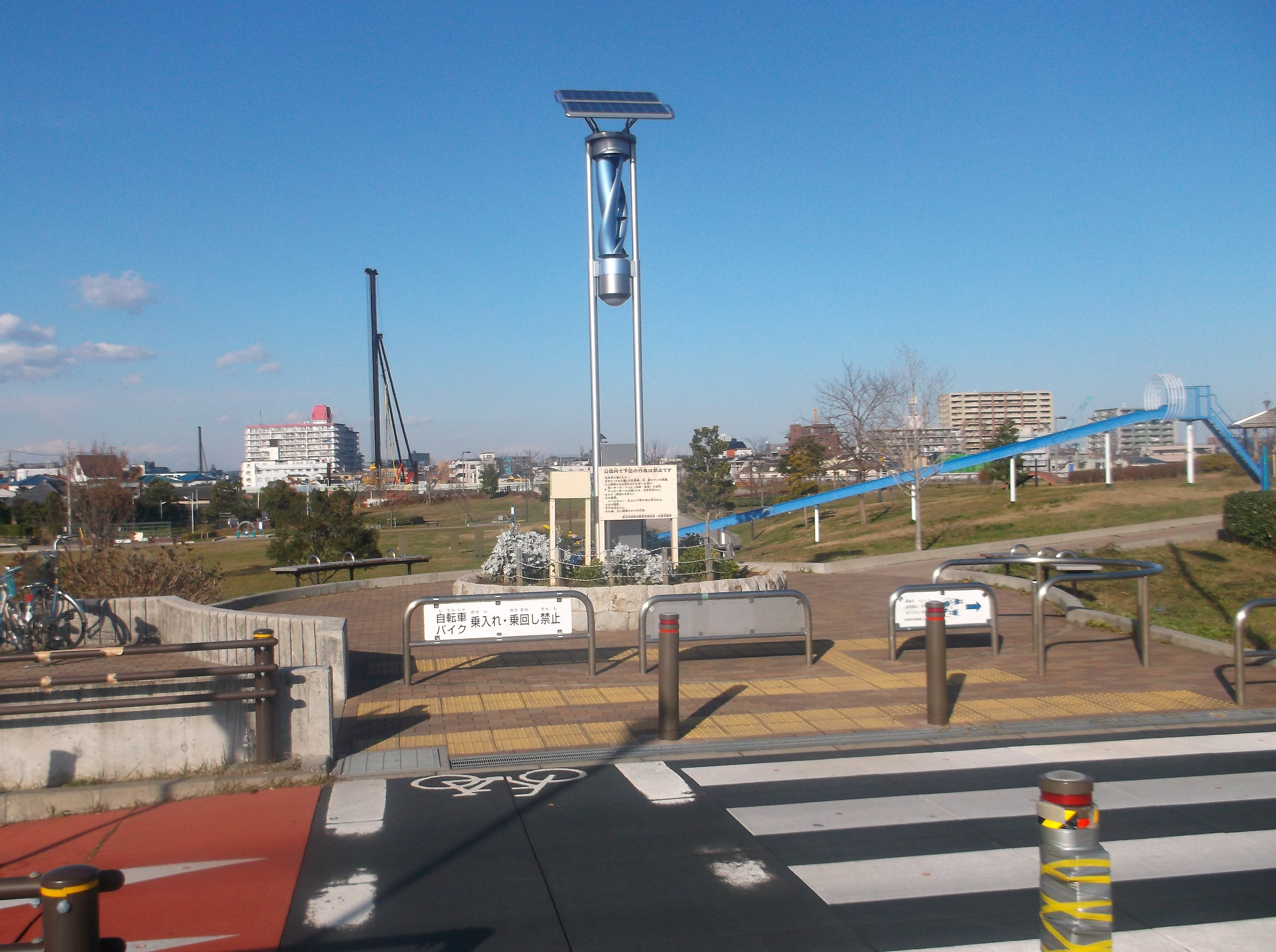 A photo of Higashitateishi Ryokuchi Park,Higashitateishi,Katsushika-ku,Tokyo,Japan.